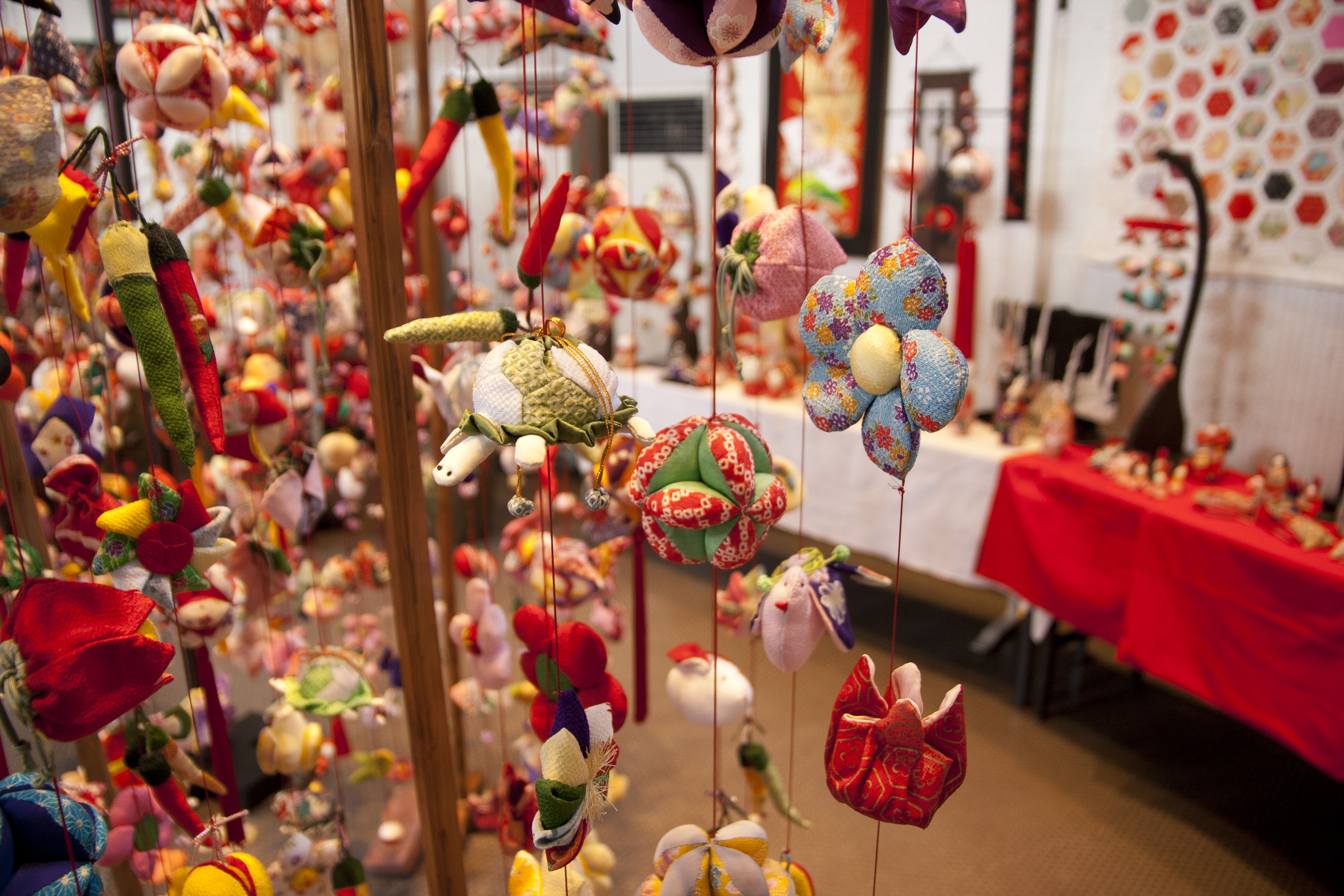 Tsurushi-Hina is hanging Hina-Ningyo dolls in Japan.